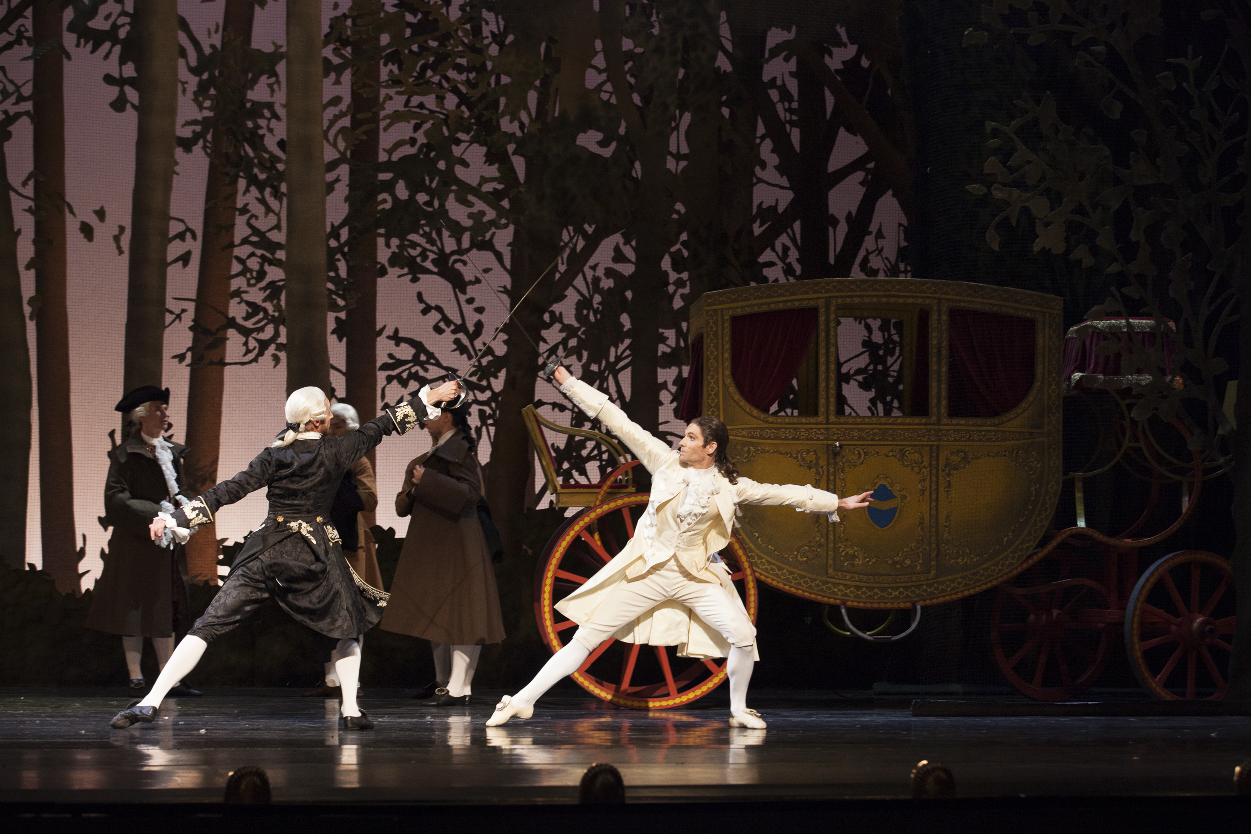 "Casanova in Warsaw" ballet by Krzysztof Pastor, Polish National Ballet, dancers: Maksim Woitiul as Count Branicki & Vladimir Yaroshenko as Giacomo Casanova, set and costume design by Gianni Quaranta